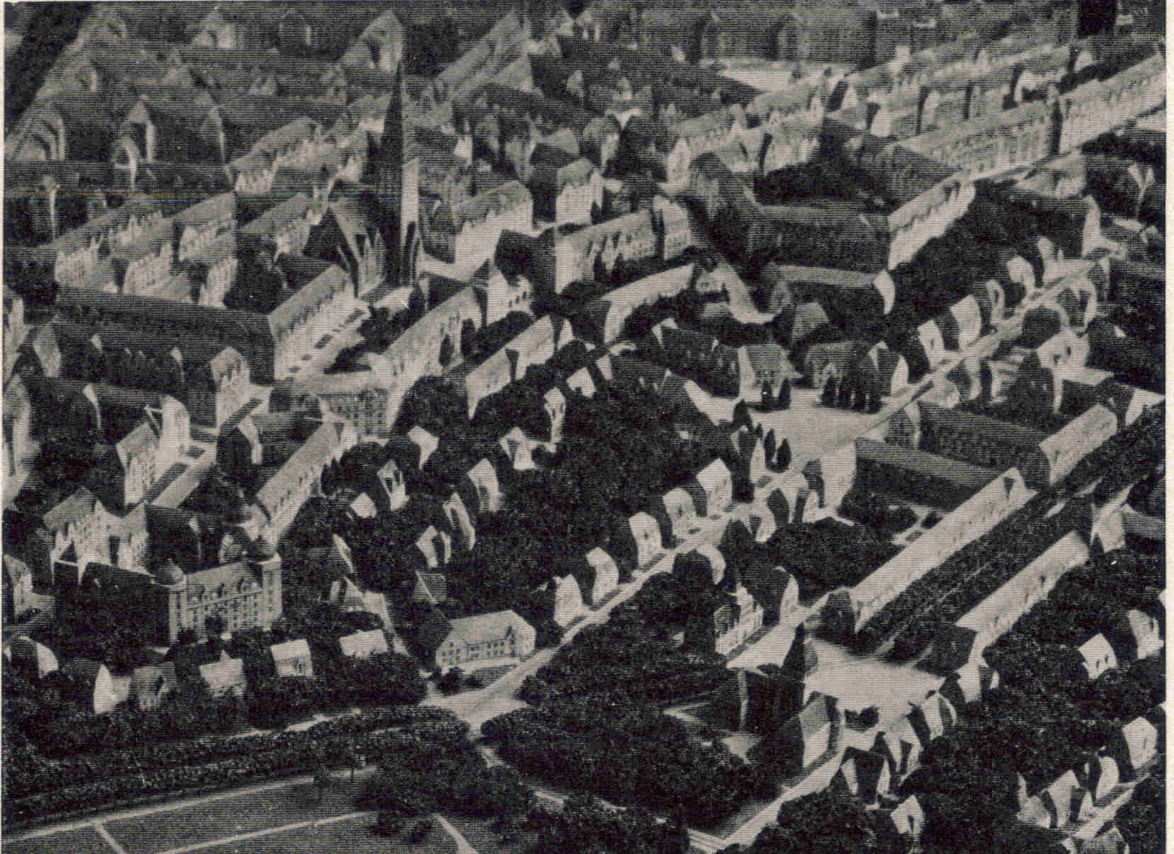 Photograph of a model of the Munksnäs-Haga plan